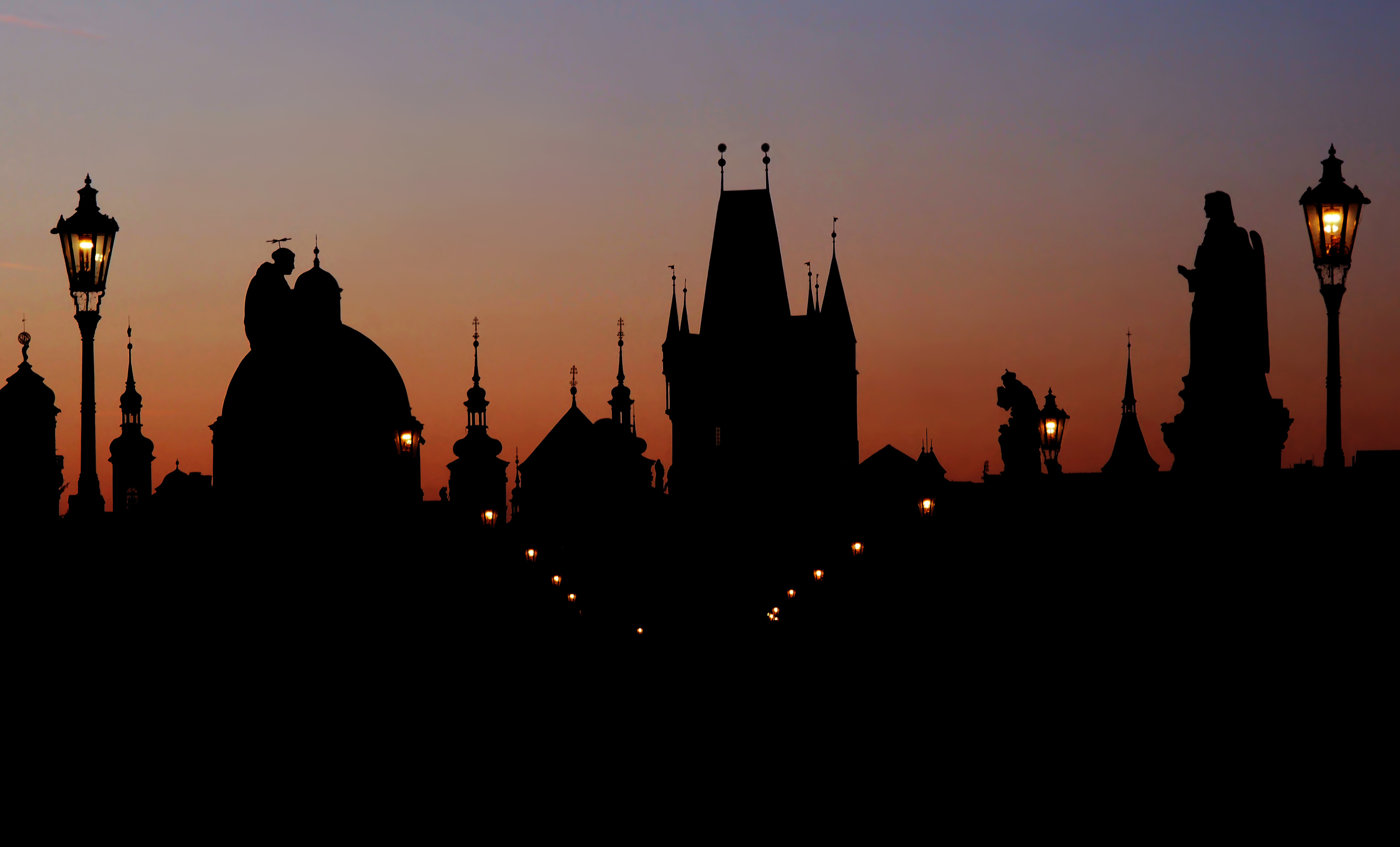 Prague skyline at dawn. View from Charles bridge to the East.